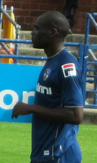 Jean-Yves M'voto.